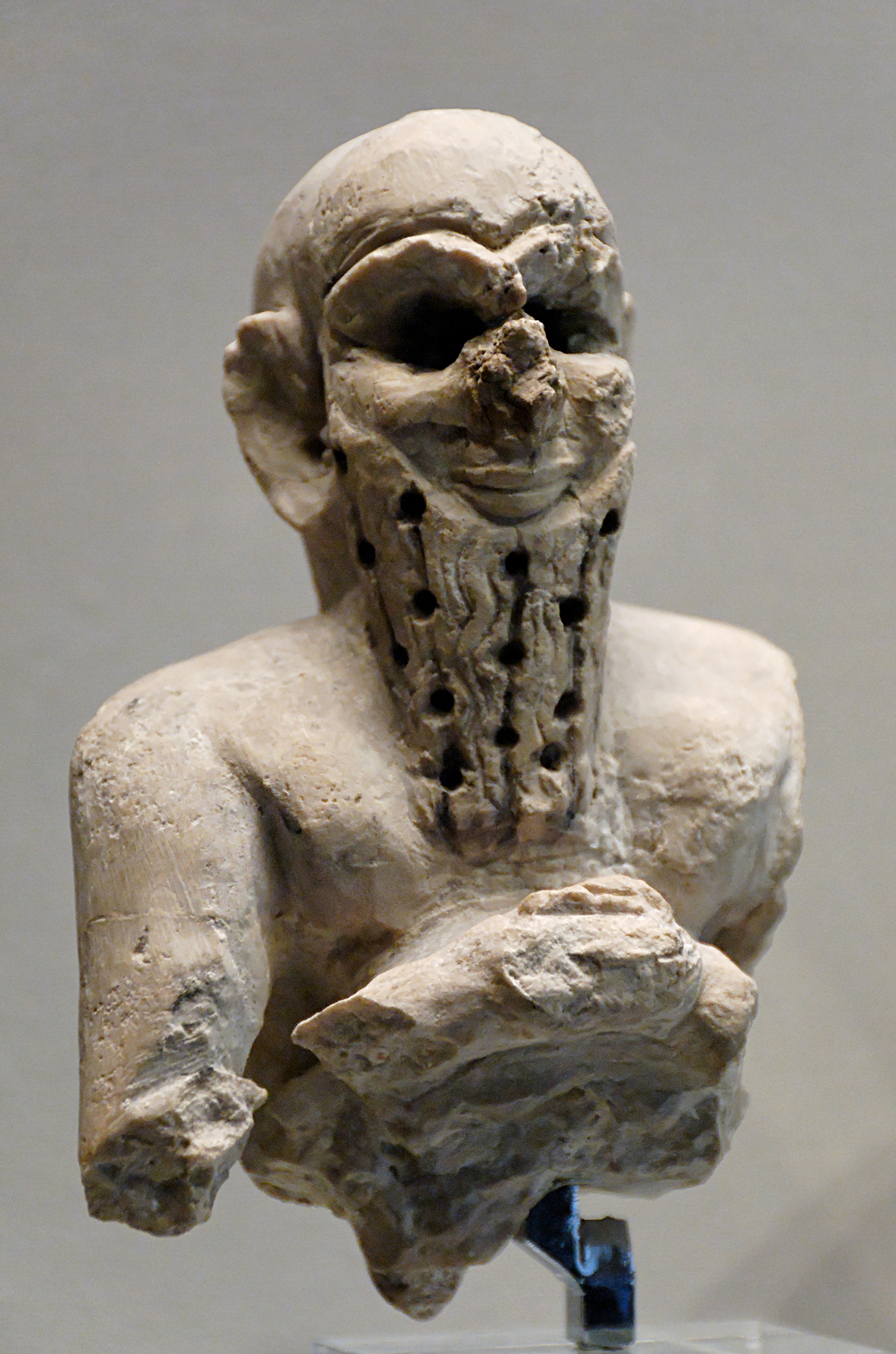 Bust of a male, bearded orant, found in the temple of Ishtar at Mari.